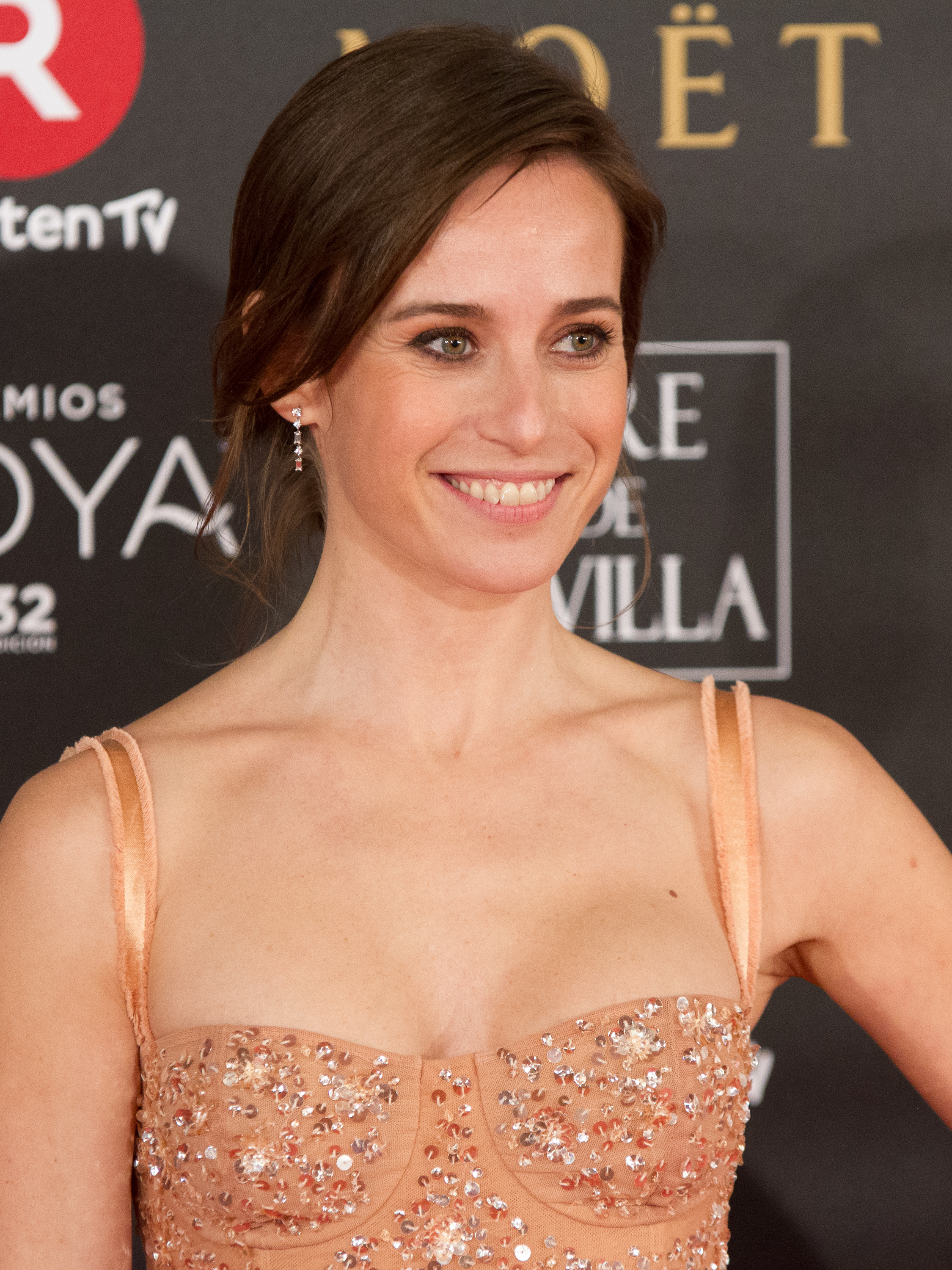 32nd Goya Awards, 2018.